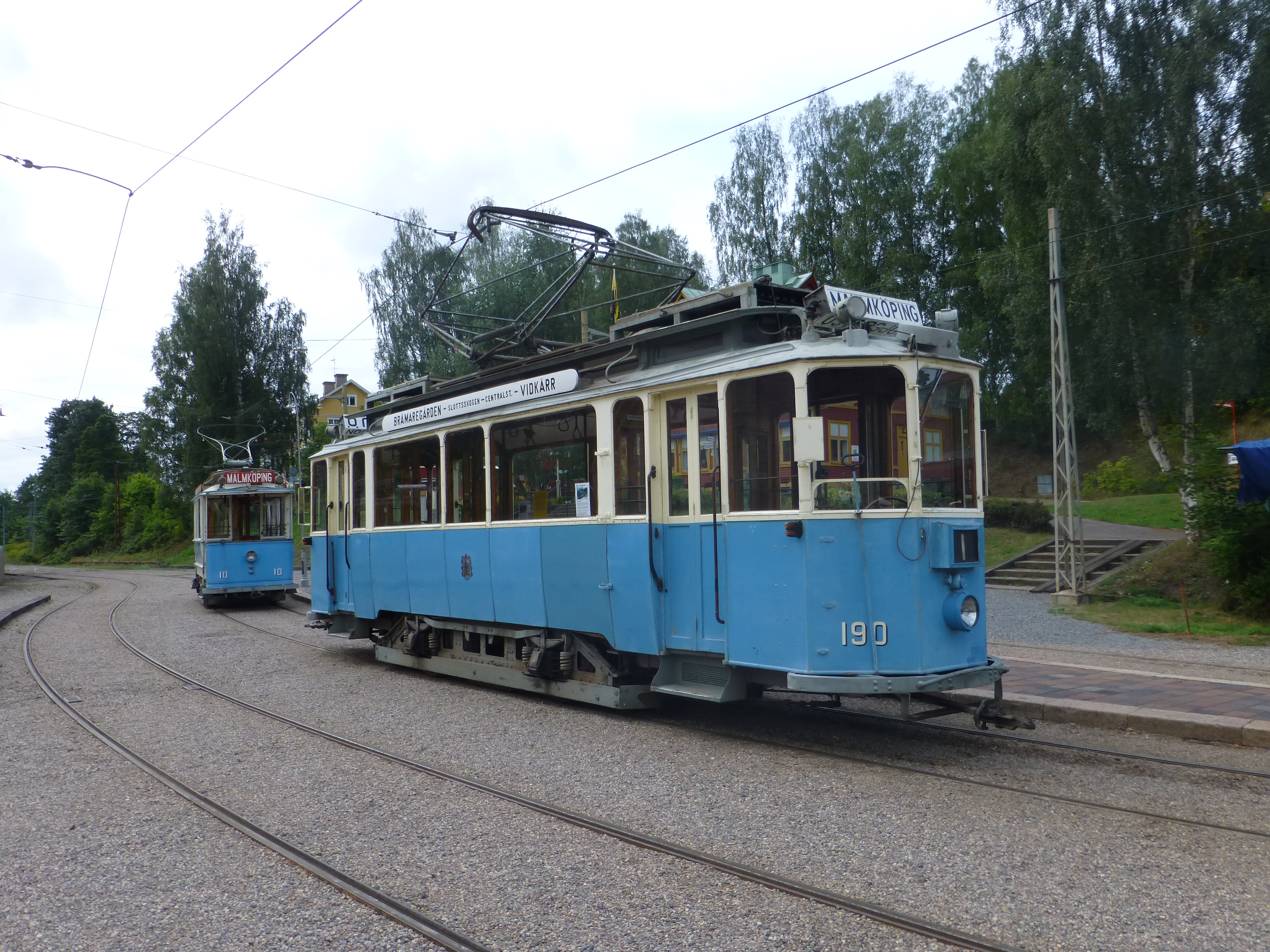 Old tram from Gothenburg GS M 20 190 at Museispårvägen Malmköping in Sweden.